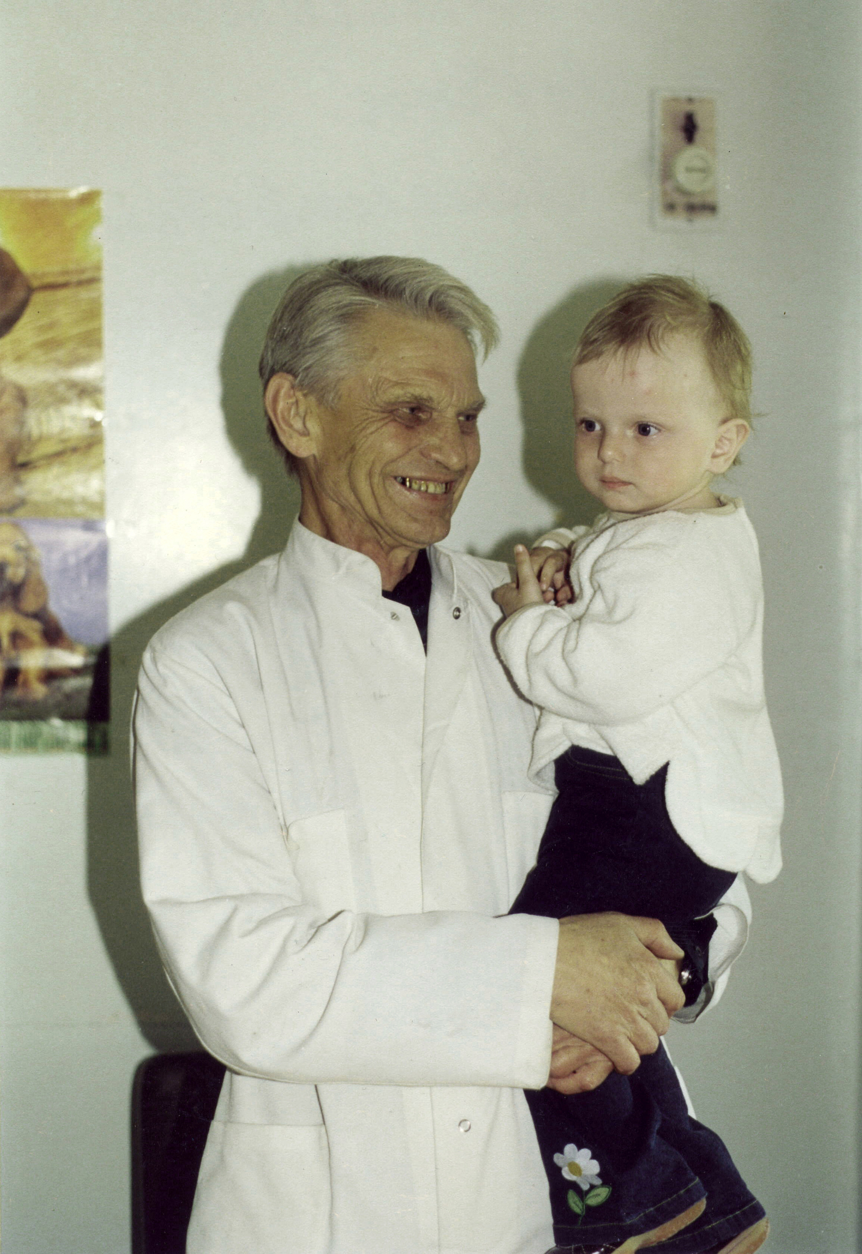 Boldirev Rem, docent of Pediatrics